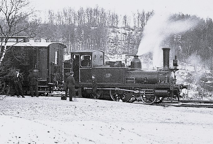 NSB class 1 no. 13 at Narvik station about 1905